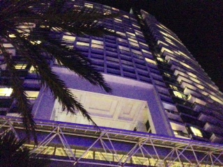 Diplomat Resort